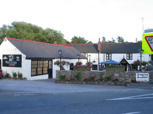 The Bridge Inn, Pontblyddyn.